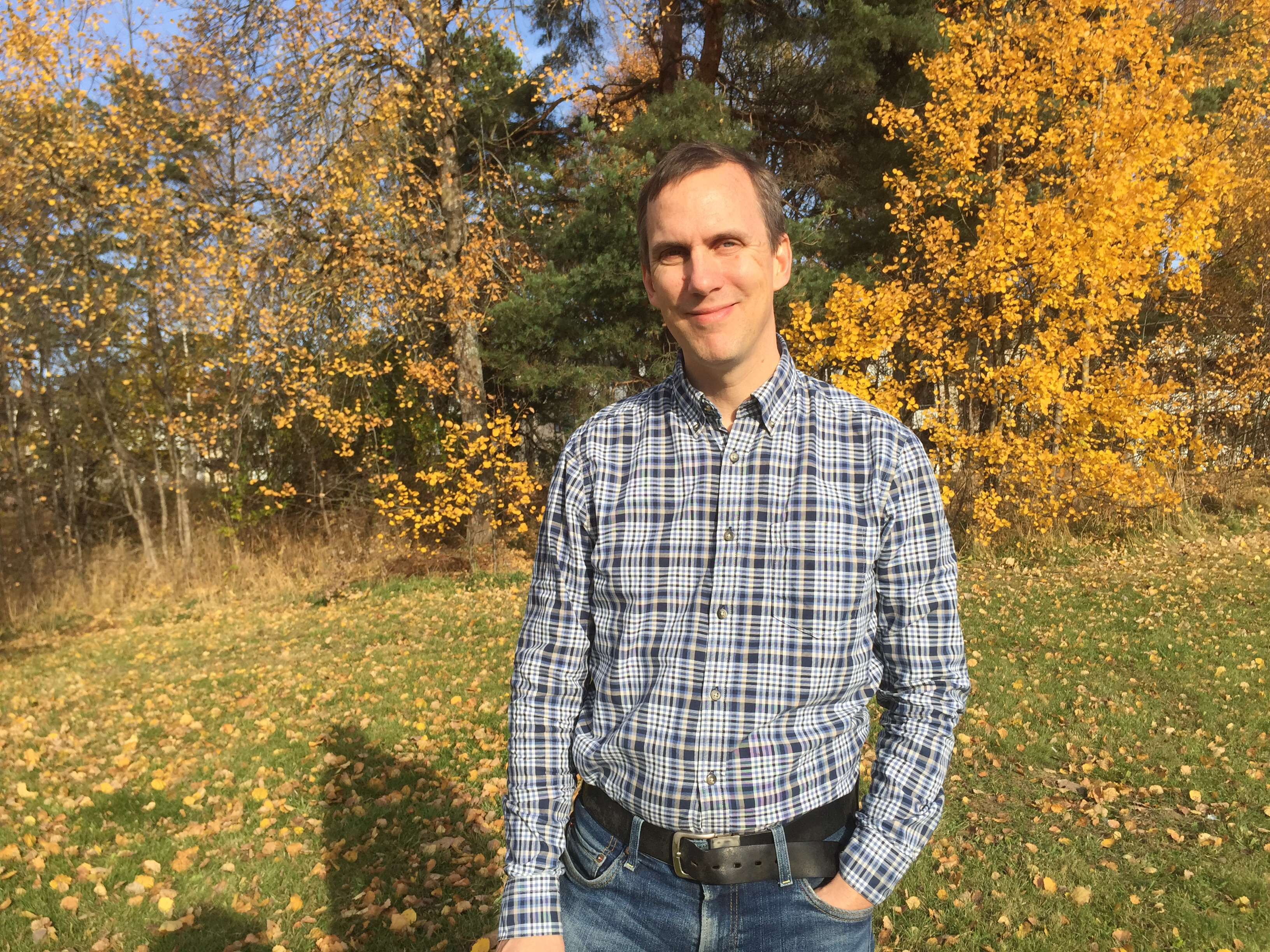 Swedish journalist Johan Bergendorff